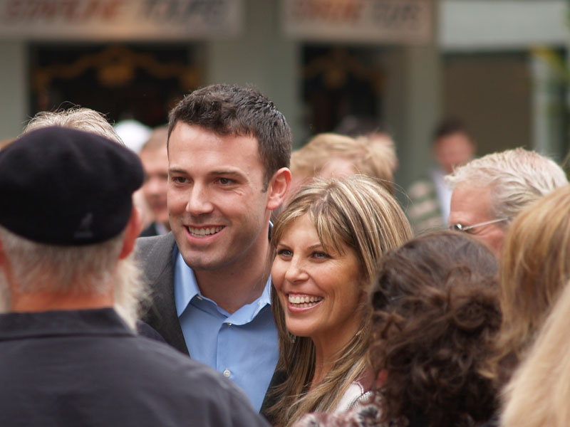 Ben Affleck attending a ceremony where Bruce Willis was presented with his star on The Hollywood walk of Fame.